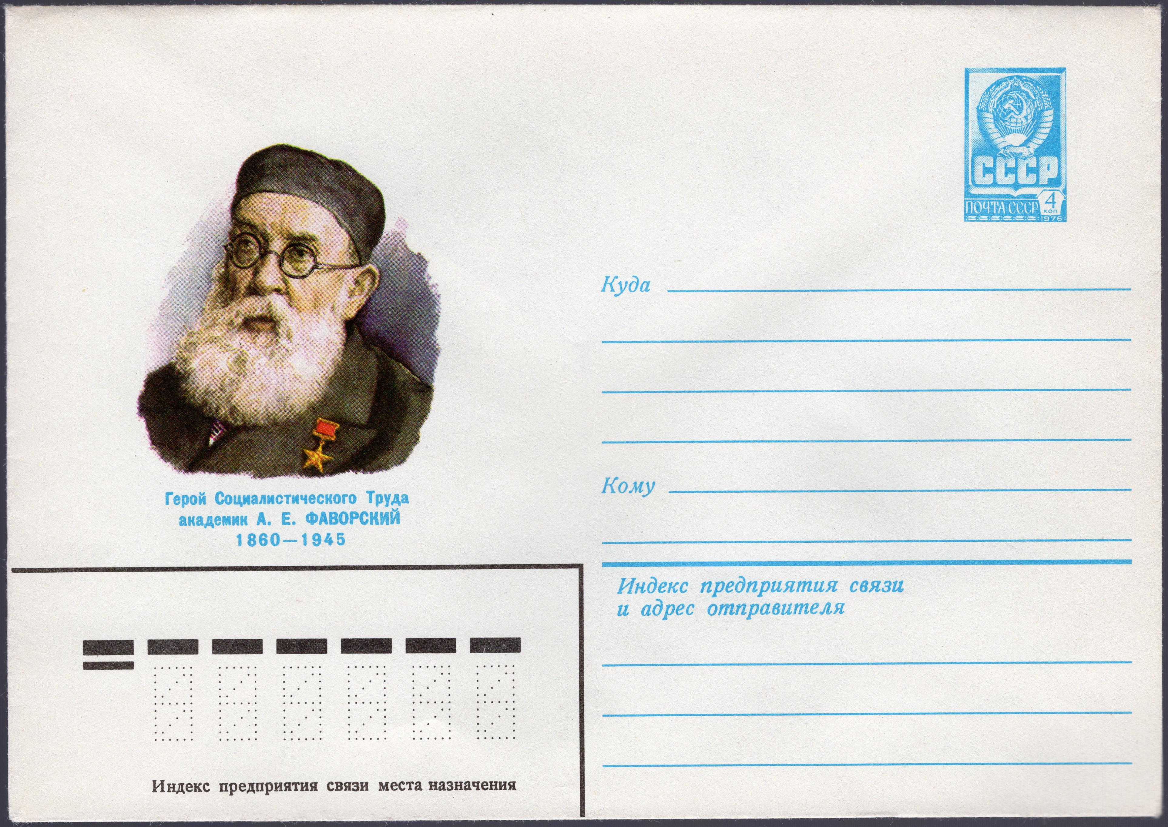 Hero of Socialist Labour academician Alexey Favorsky. 1860-1945. Series: Hero of Socialist Labour. Artist Ignatyev N.